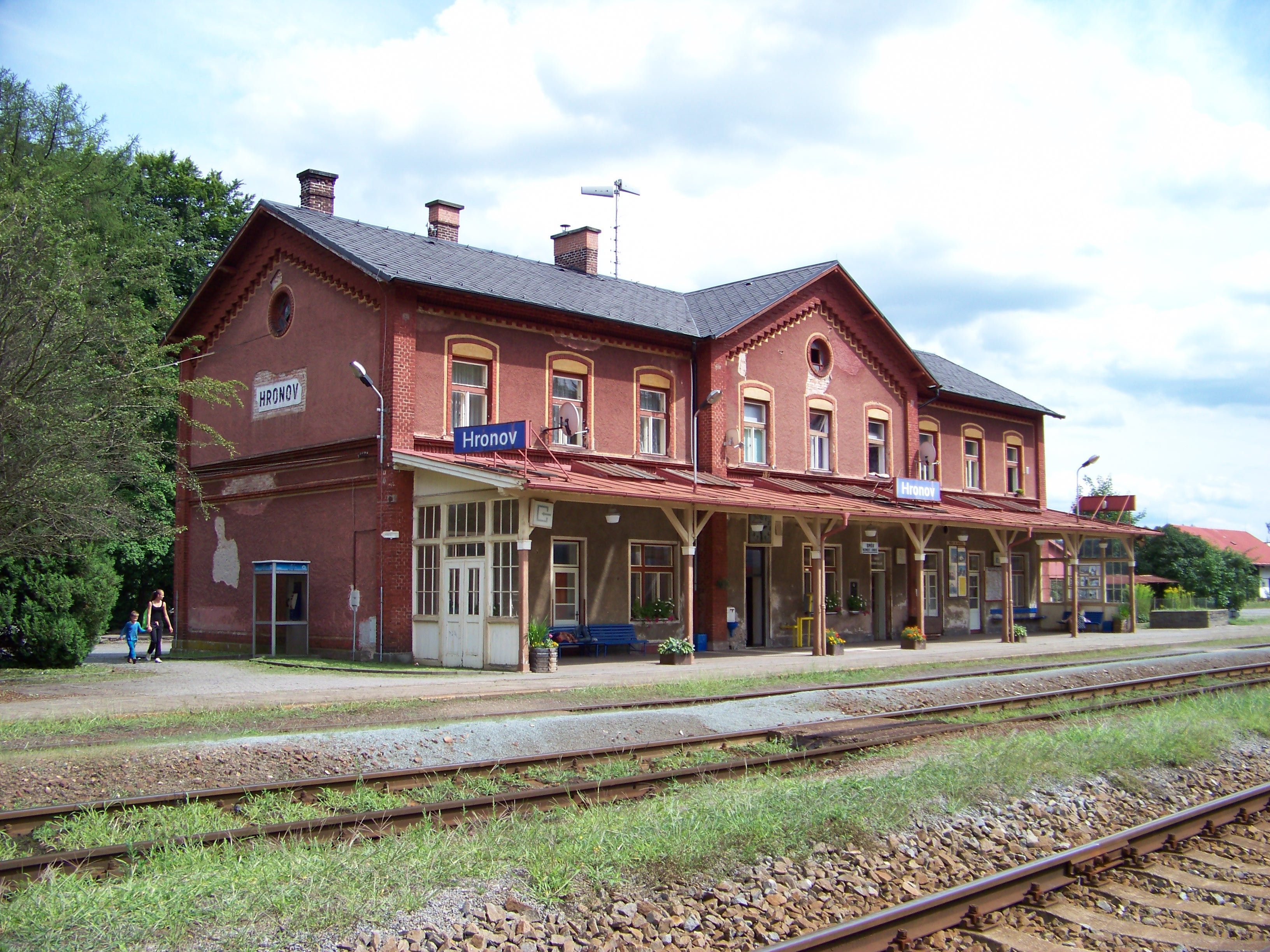 Hronov, Náchod District, Hradec Králové Region, Czech Republic. Nádražní 178, train station Hronov. - Google Maps - Google Earth